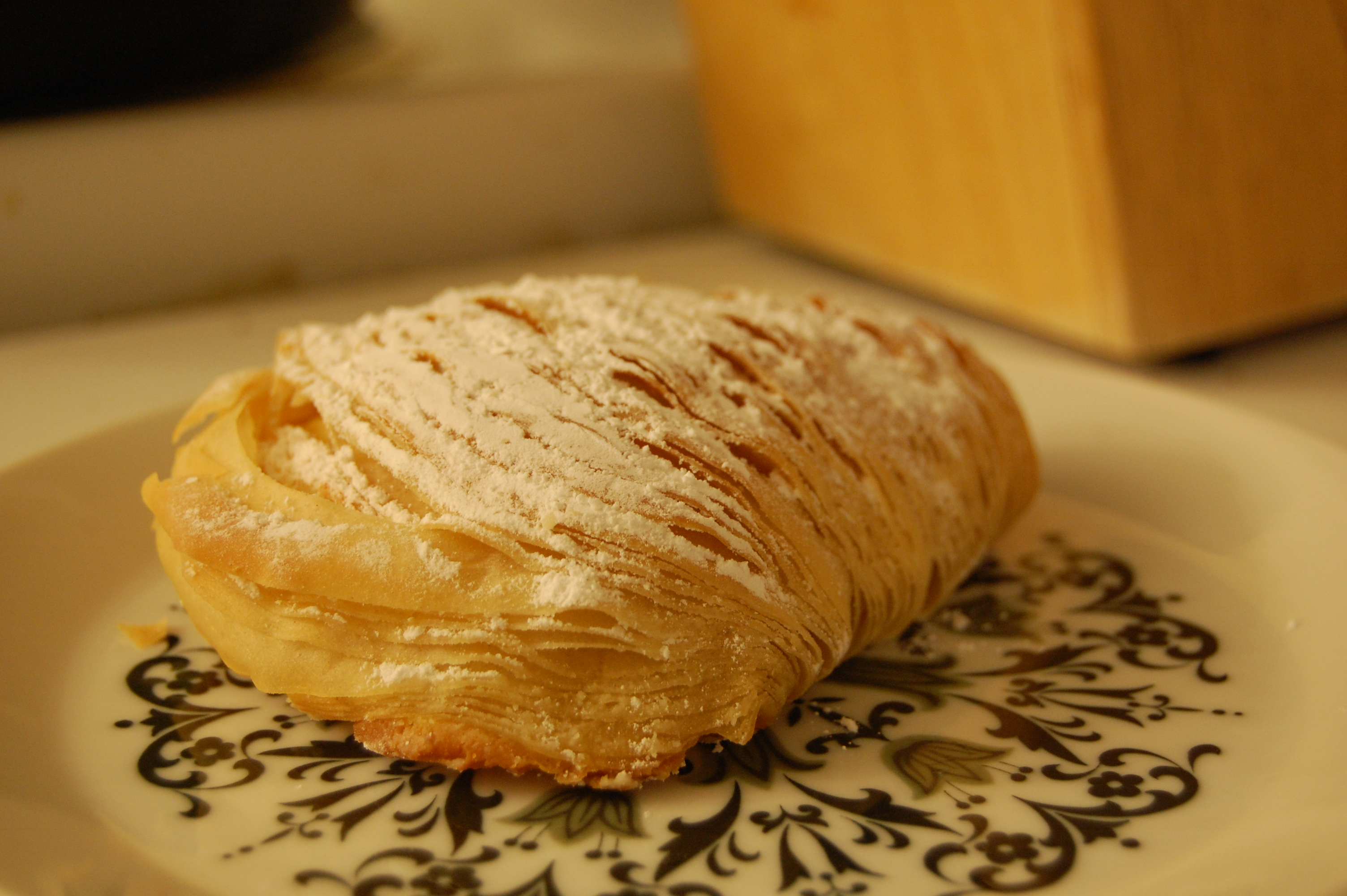 Photograph of a sfogliatelle pastry, showing texture and detail.